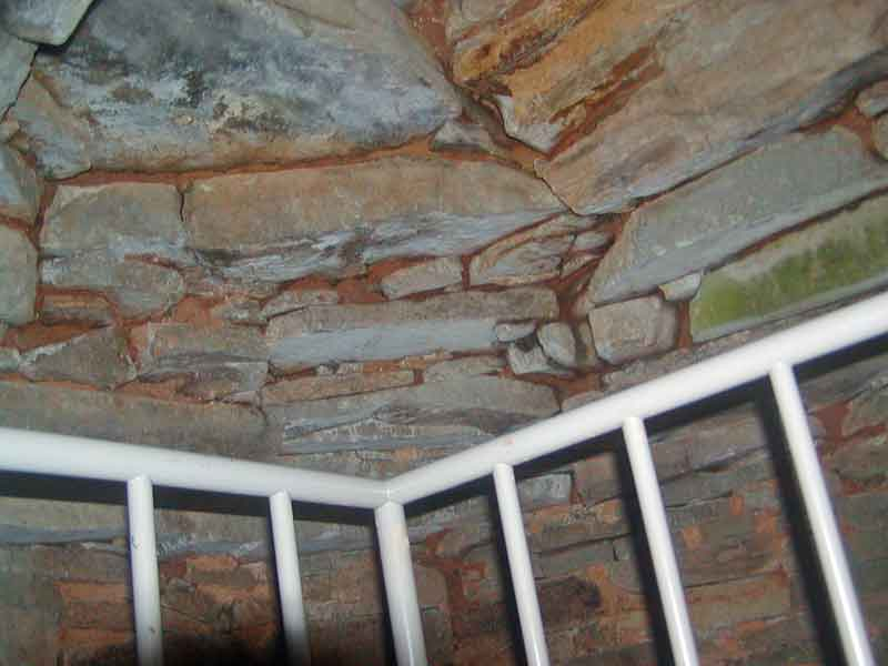 photo by Tsurumi 2006